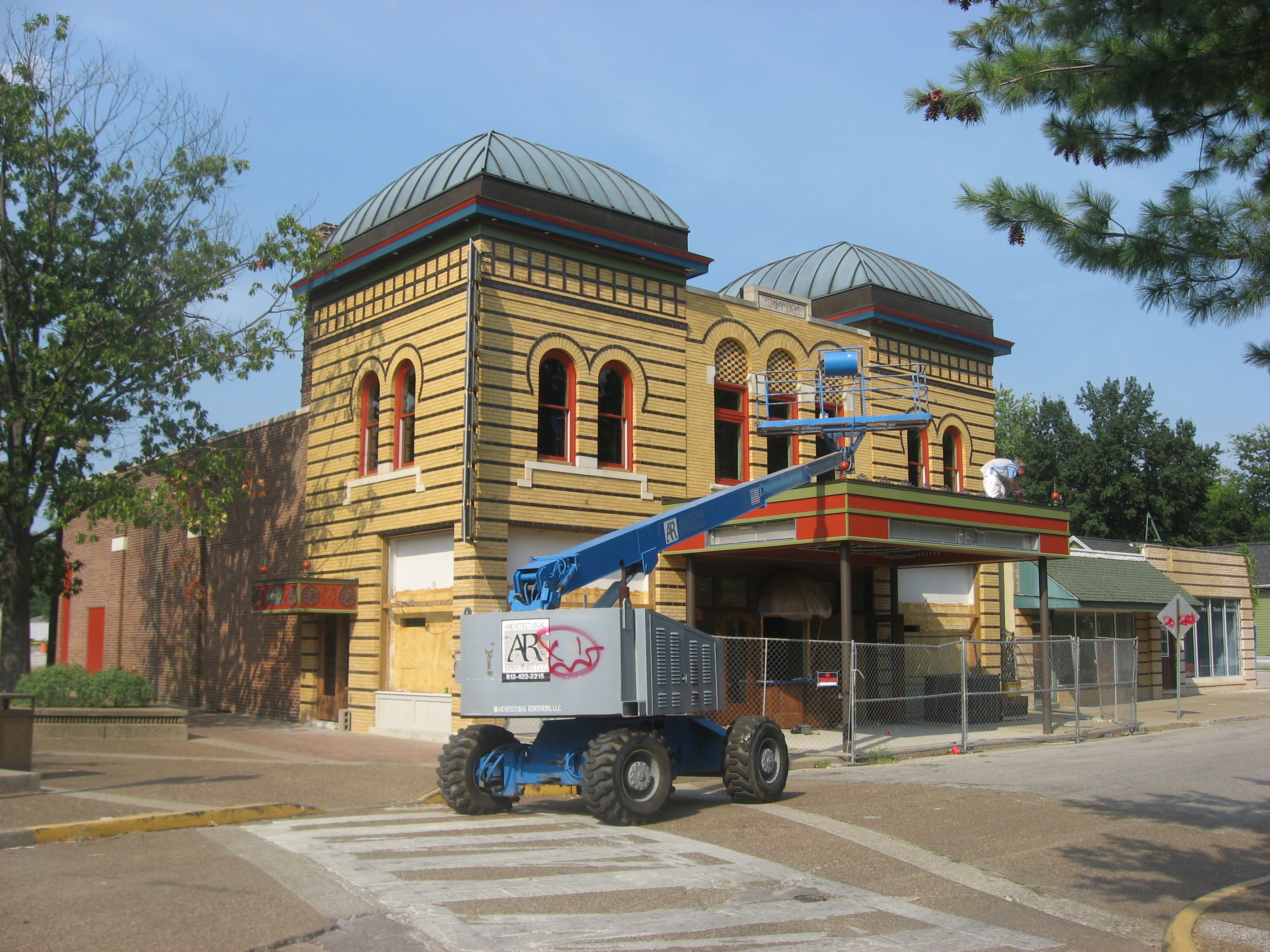 Front and western side of the Alhambra Theatorium, located at 50 Adams Avenue in Evansville, Indiana, United States. Built in 1913, it is listed on the National Register of Historic Places, and it is a part of a Register-listed historic district, the Washington Avenue Historic District.